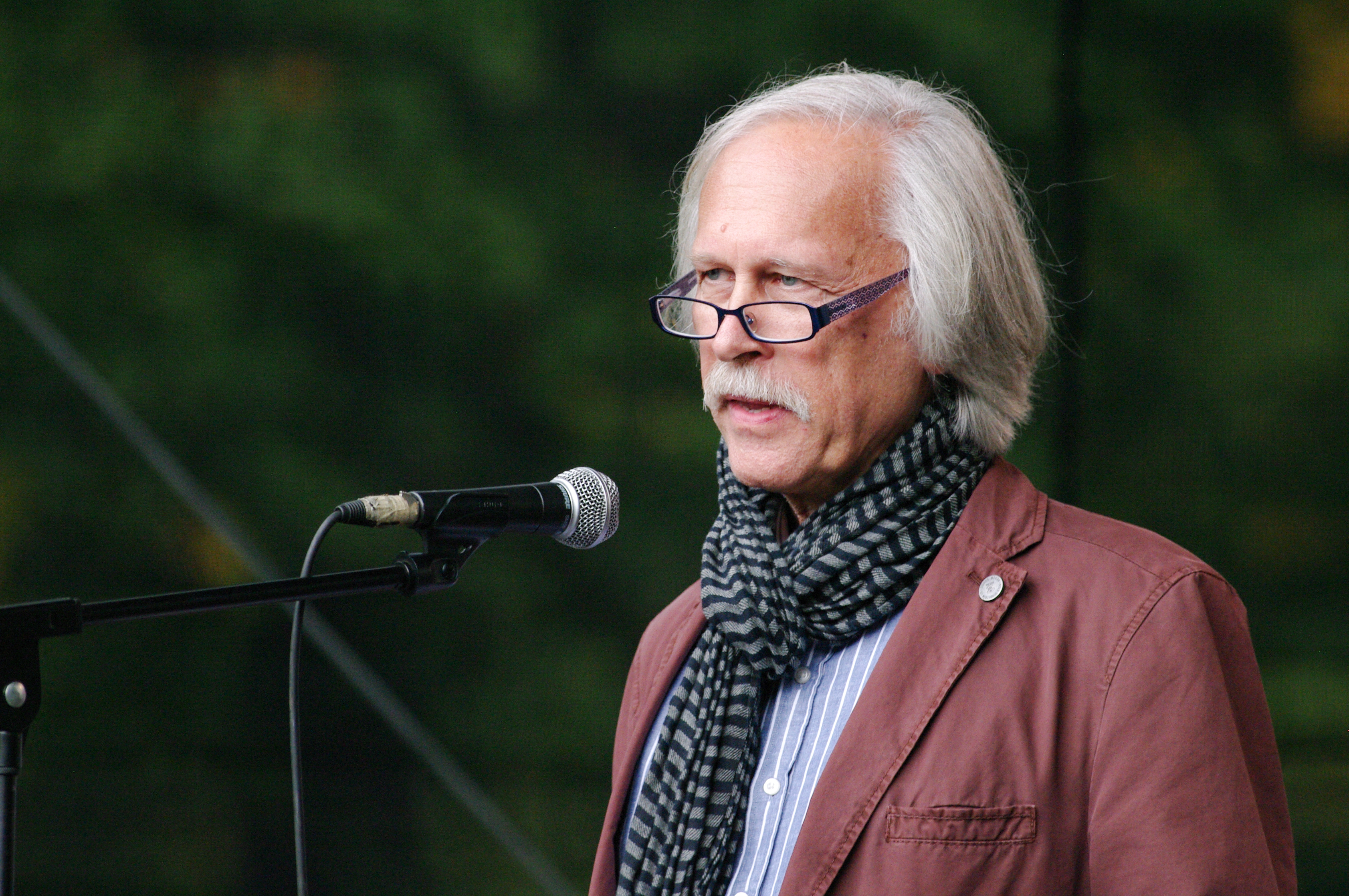 Freedom not Fear, Berlin 2014